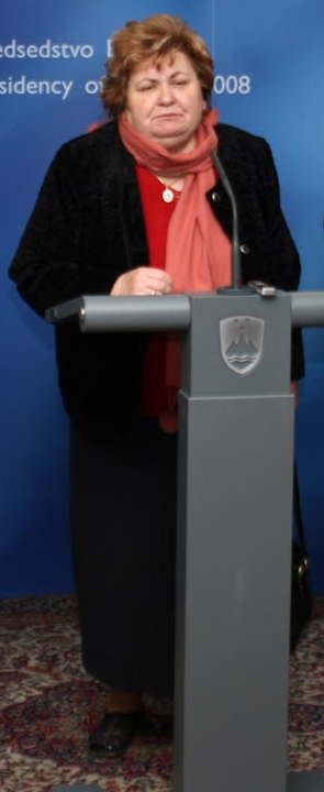 Karl Erjavec, Mitja Slavinec in Maria Pozsonec